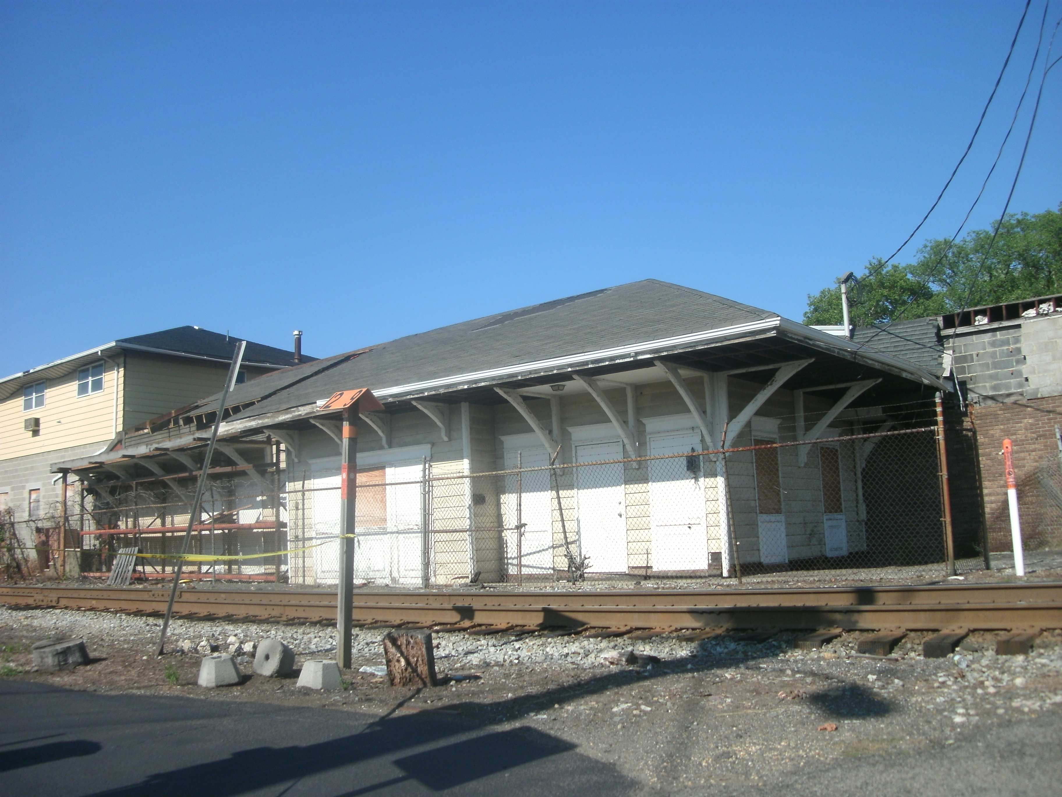 The railroad station in Bogota, New Jersey. Formerly used by the New York, Susquehanna and Western Railroad, the station depot is now integrated into another building and is beginning to deteriorate. The active tracks of the Susquehanna are present in front of the building.